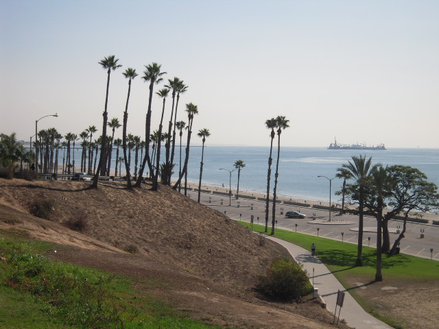 Looking southeast from Bixby Park, Alamitos Beach, Long Beach, CA